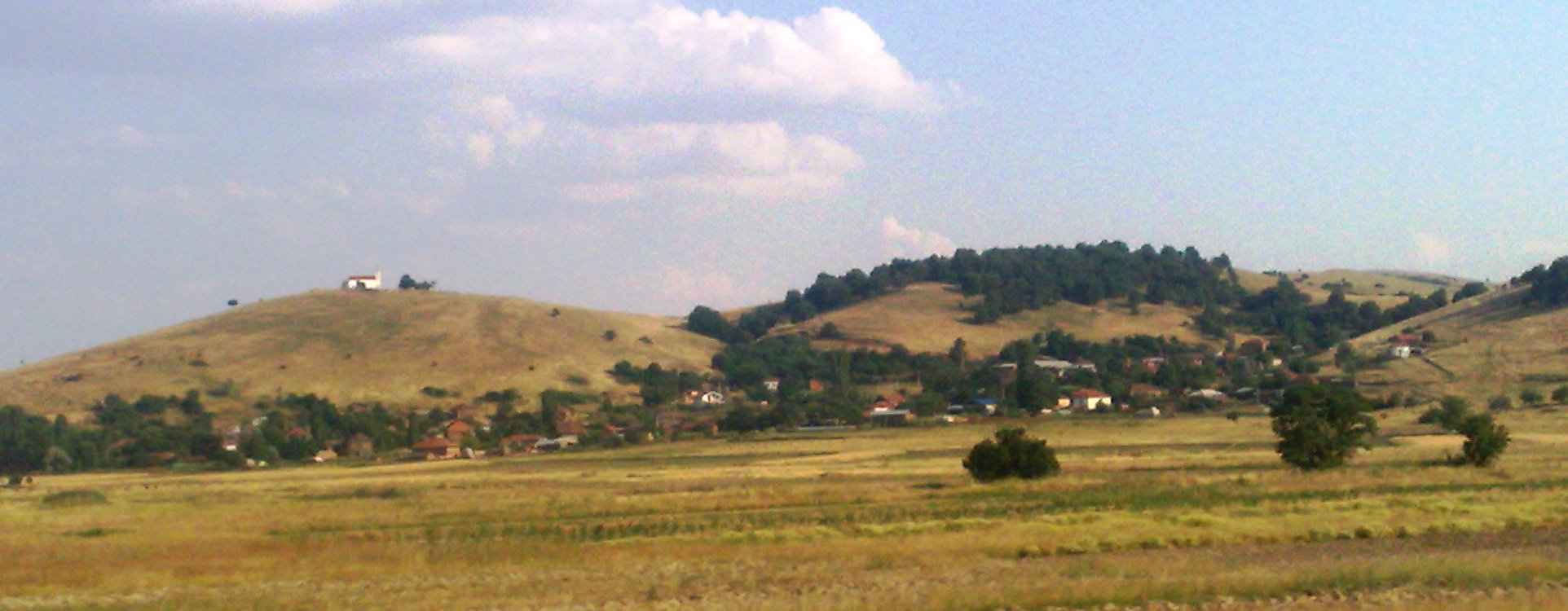 village of Veselchani near Prilep, Macedonia